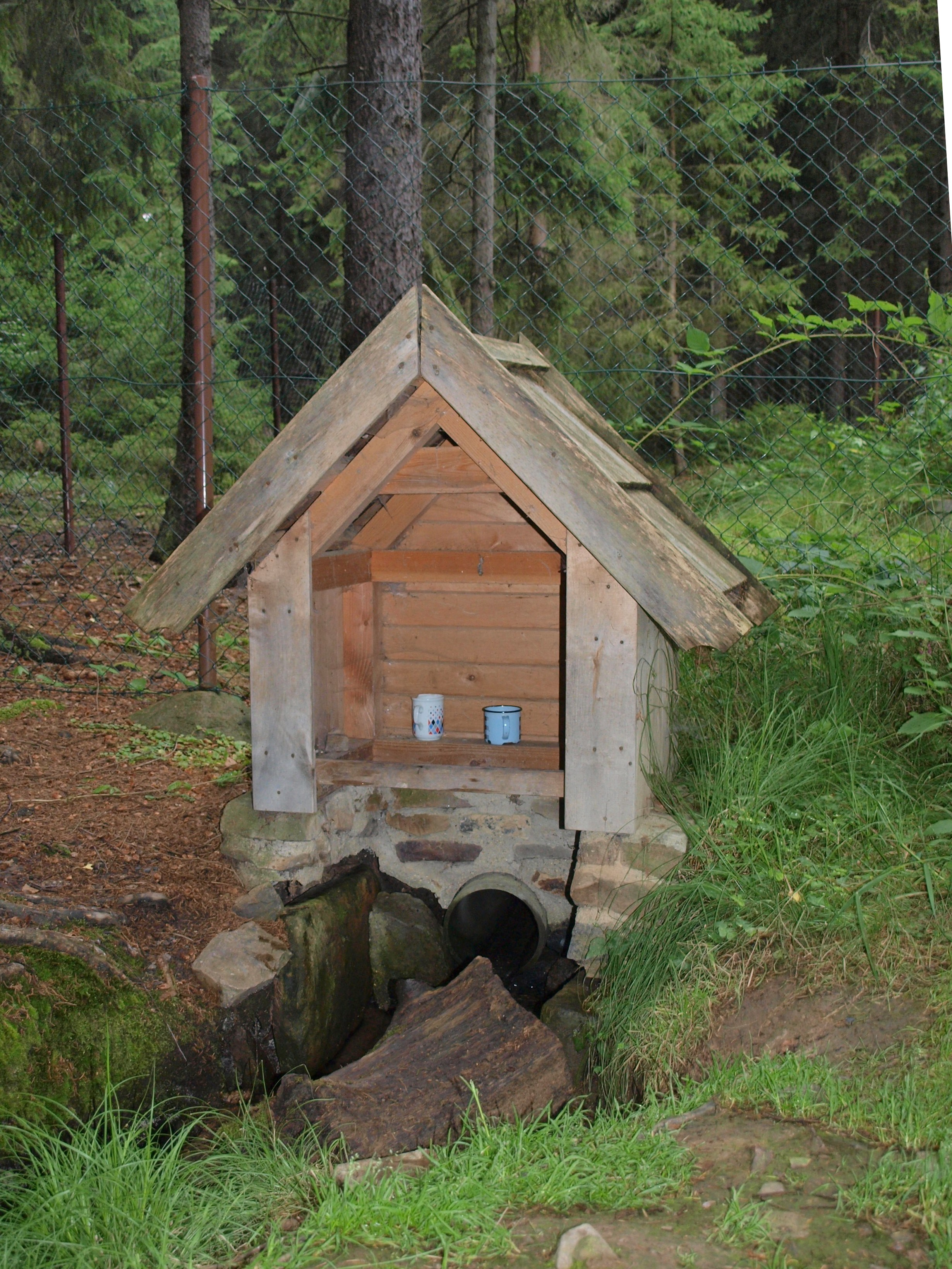 Knížecí Studánky spring near Stožec, Brdy